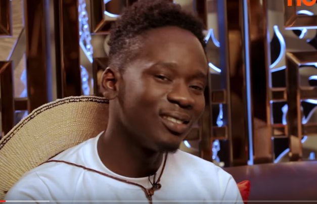 Mr Eazi's interview on NdaniTV's The Juice